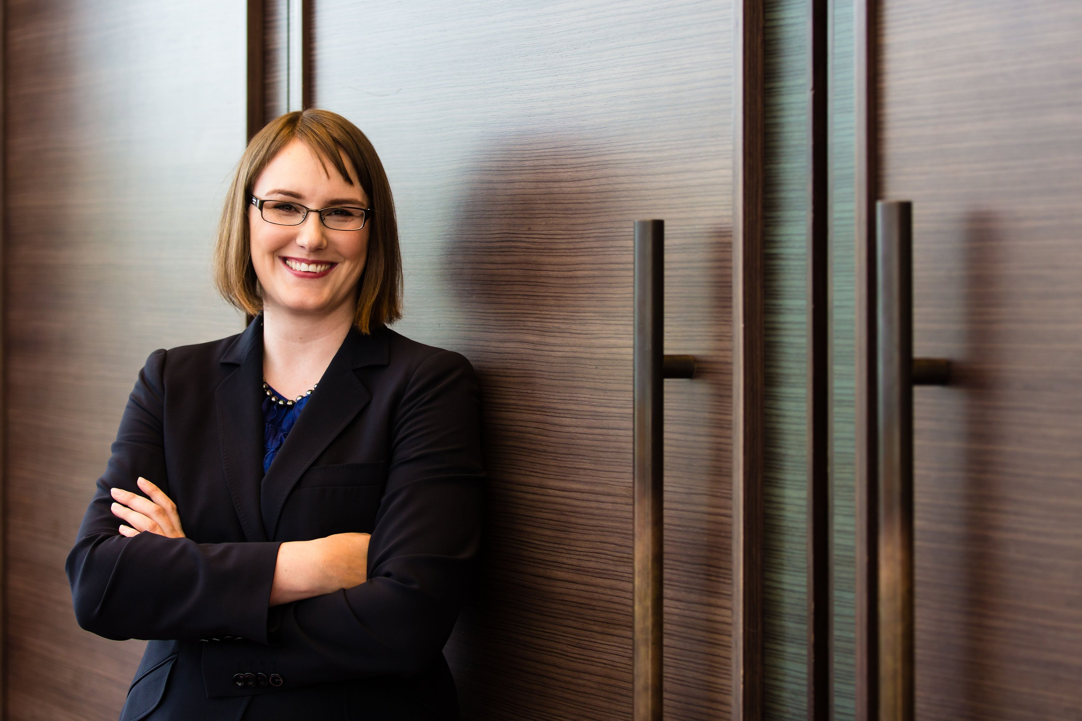 Rachel Christenson, the president of Selling Energy.